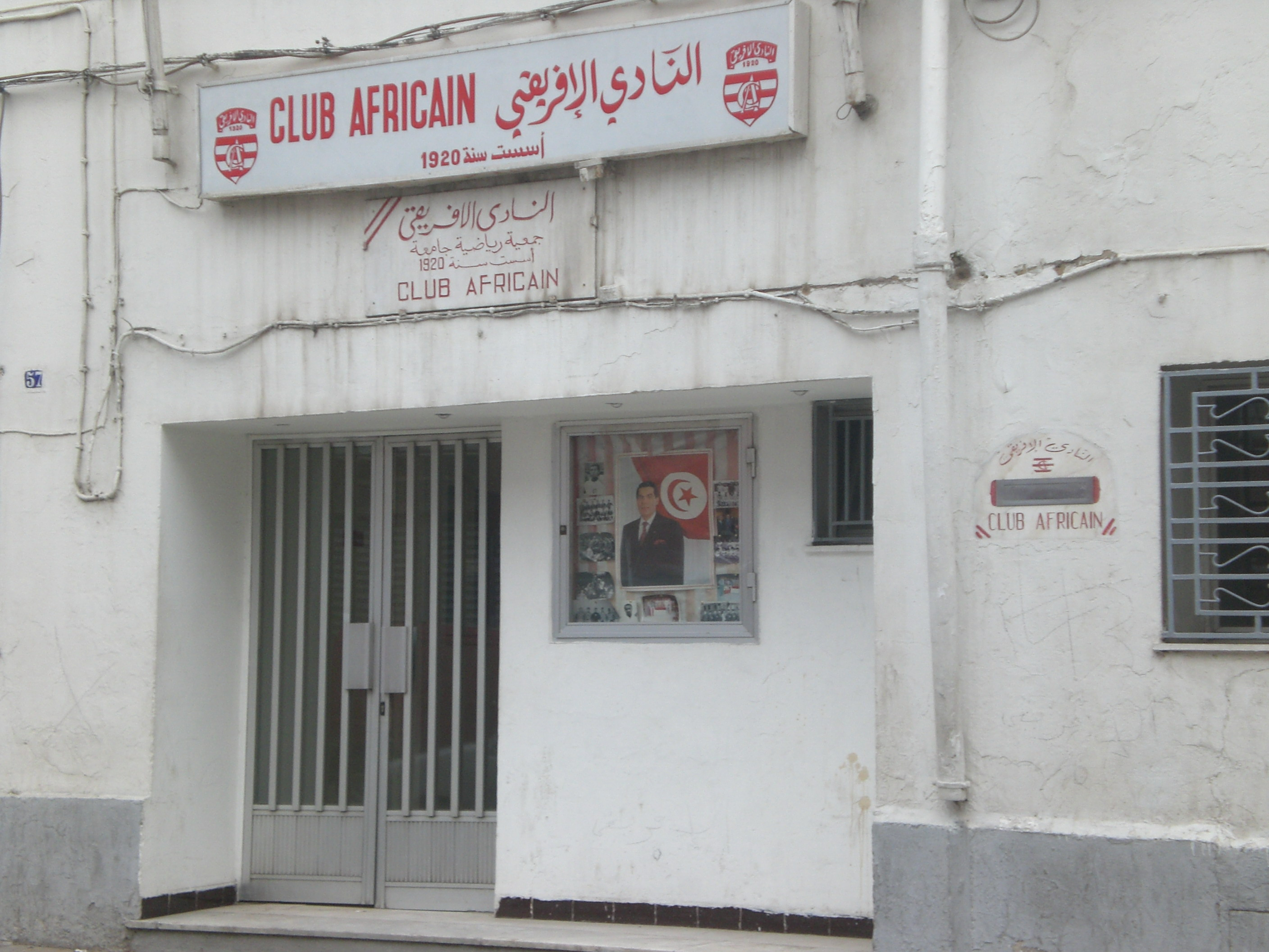 The local of the Club Africain-Tunis